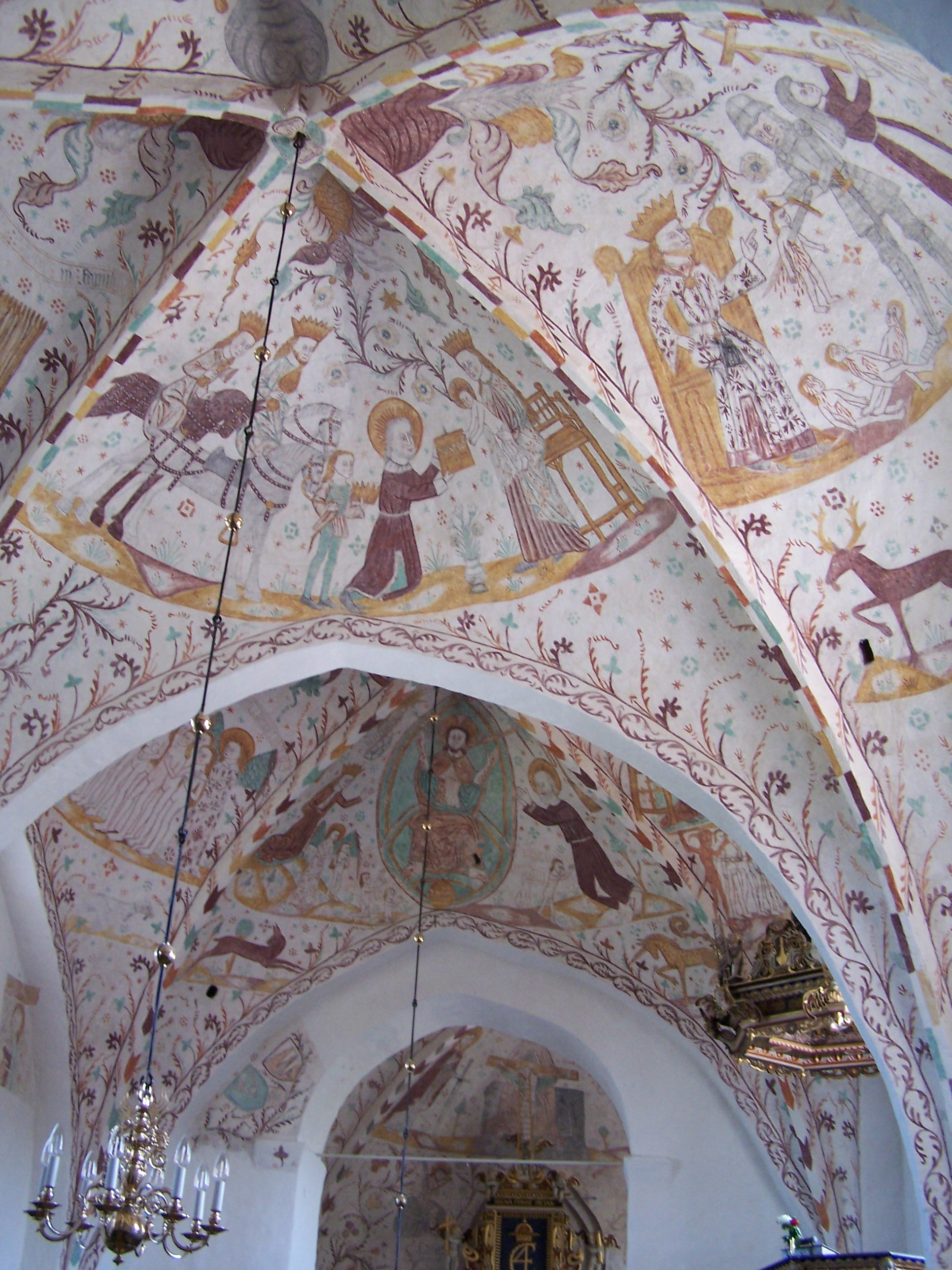 Elmelunde Church Frescos in ceiling View from aft